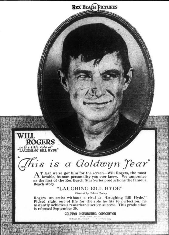 Advertisement for the American adventure comedy film Laughing Bill Hyde (1918) with Will Rogers, on page 35 of the August 9, 1918 Variety.